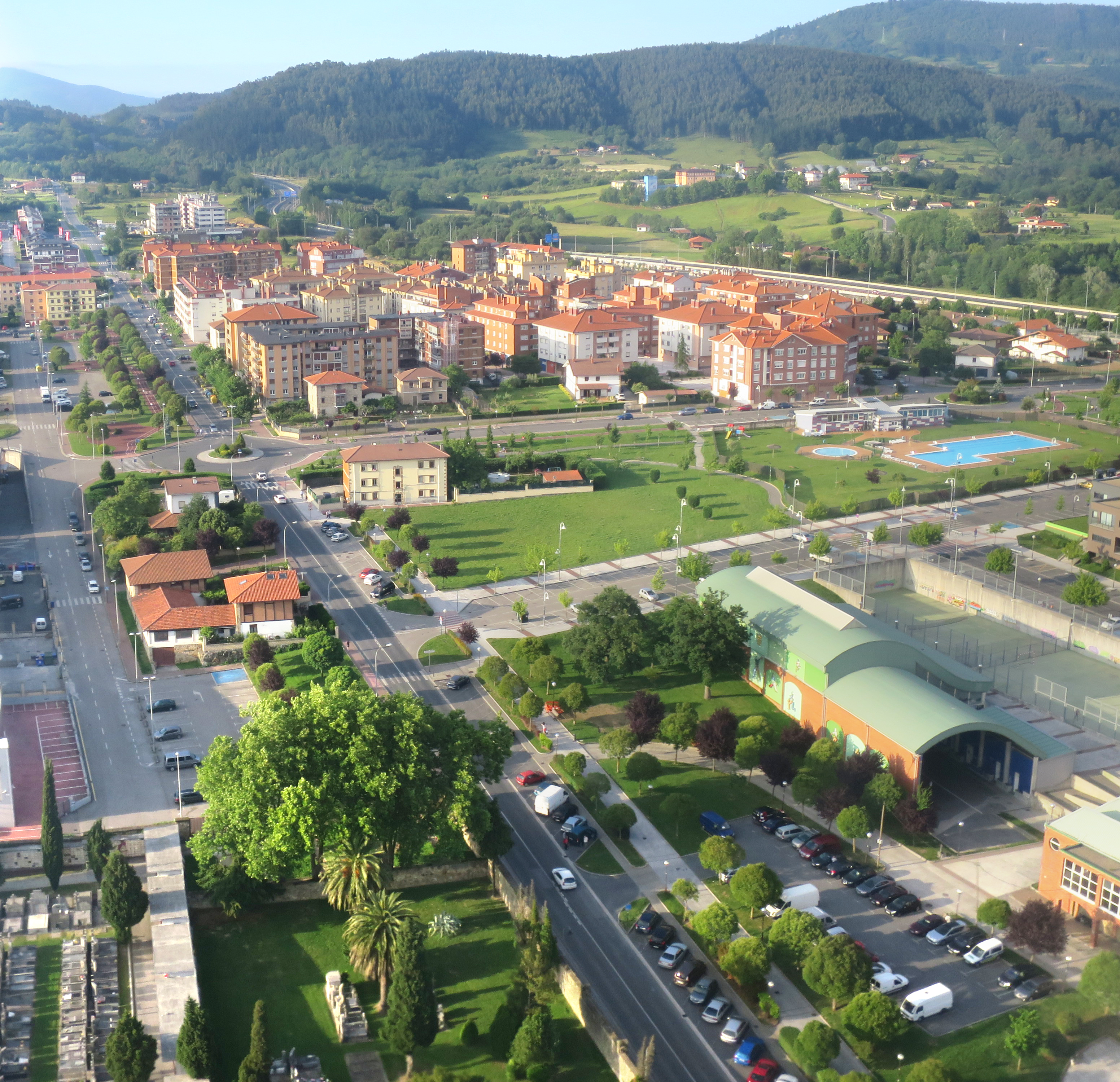 Aerial view of Derio in the Basque Country.